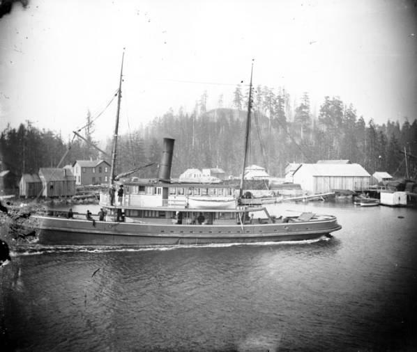 Steamer Cruiser at Heron Street dock in Aberdeen, about 1900.